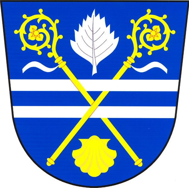 Municipal coat of arms of Panenské Břežany village, Prague-East District, Czech Republic.